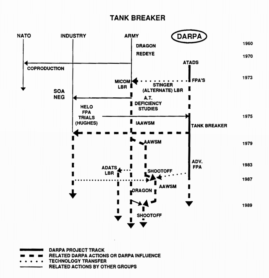 Tank Breaker Timeline.